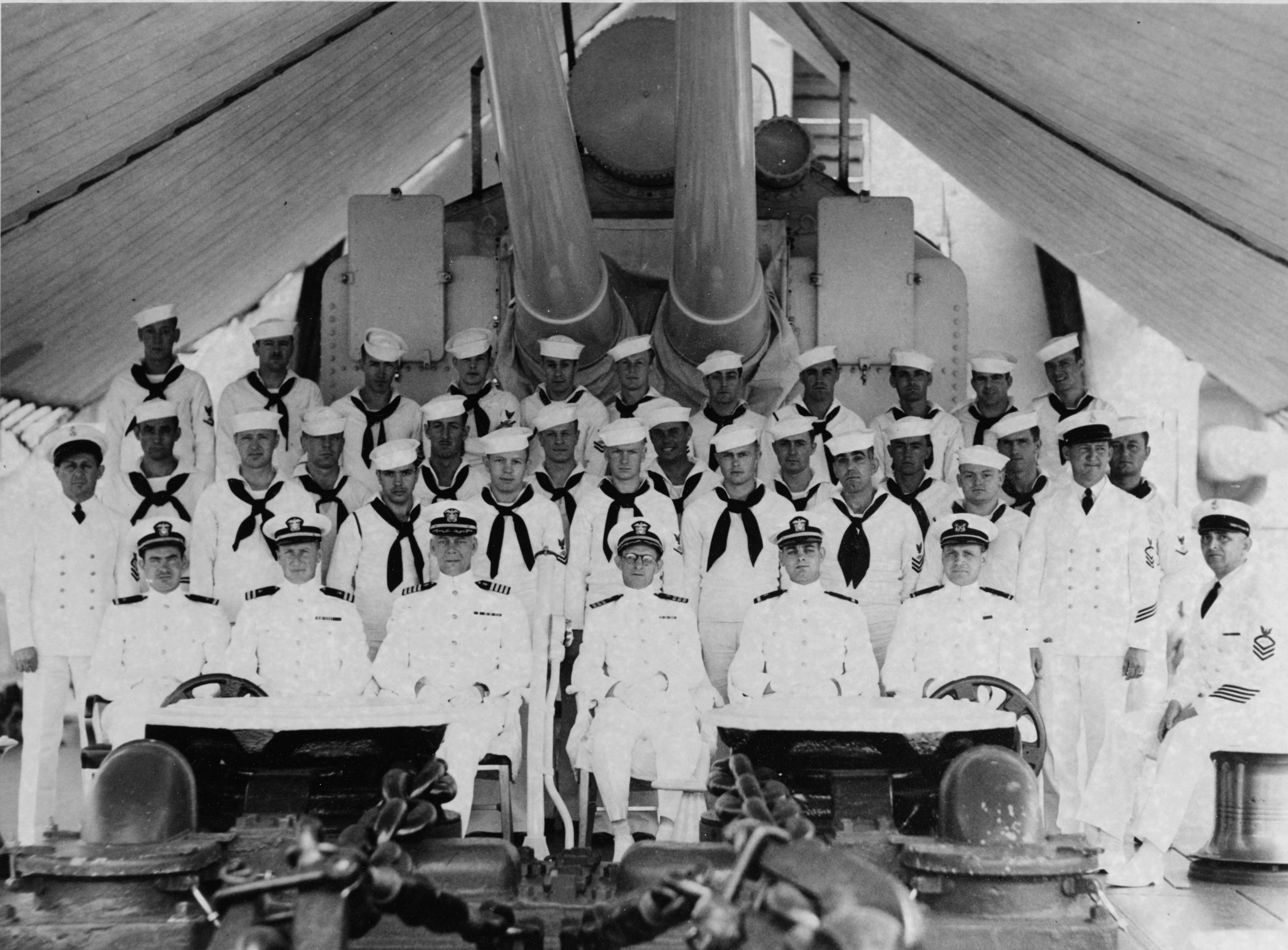 The Commanding Officer of the U.S. Navy light cruiser USS Omaha (CL-4), Captain Wallace L. Lind (3rd from left, seated) with some of her officers and men, while Omaha was serving in the Mediterranean Sea, circa 1938-1939. Commander Norman C. Gillette, Omaha's Executive Officer, is seated in the center, just to right of Captain Lind. The ship's forward twin 6/53 gun turret is just behind the men.